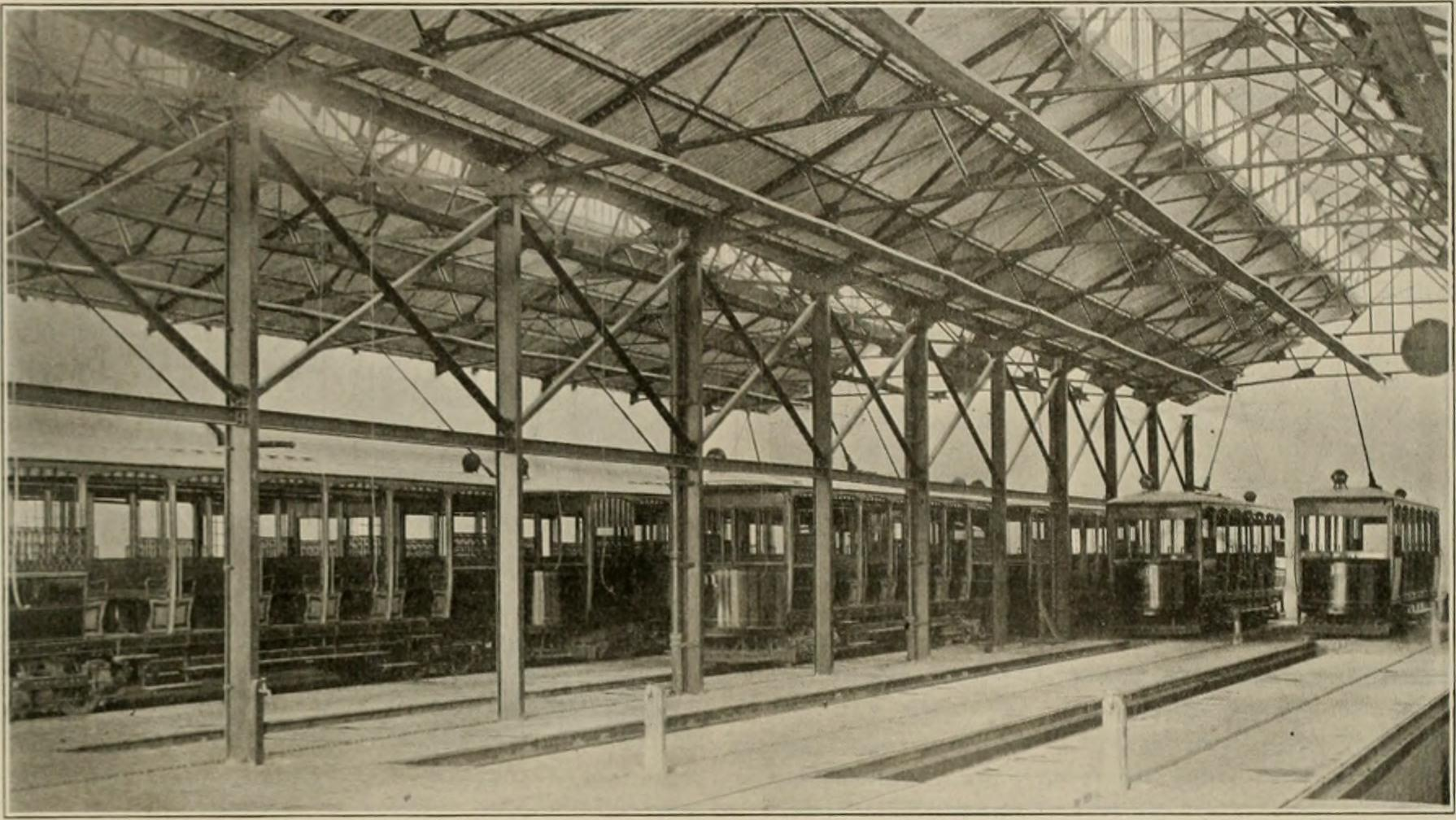 «Car barns — Mandalay Electric Co.» (original caption) Title: The street railway review Year: 1891 (1890s) Authors: American Street Railway Association Street Railway Accountants' Association of America American Railway, Mechanical, and Electrical Association Subjects: Street-railroads Publisher: Chicago : Street Railway Review Pub. Co Text Appearing Before Image: lectric Co. was incorporated in London in Octo-ber, 1902, with a capital of fjoo,ooo. .Actual work was commencedin December, 1902, by Dick, Kerr & Co., Ltd., and the first car wasmoved by electrical power on June 17th, 1904. The center of thetramway system has been placed at the new Zegyo bazaar, fromwhich the tramway radiates in three branches, one leading to tlieshore, where steamers embark their pa^seiisers, the second running feeders consist of solid soft drawn copper wire, carried on specialhigh resistance toggles clamp insulators, which are in tvirn boltedto substantial malleable iron brackets attached to the poles. At sev-eral points along the route these feeders are tapped by insulatedcables which are connected to the main feeder switches in switchpillars fi.xcd on the sidewalk. The rolling stock consists of z^ electric motor cars of the singledeck, open, cross-bench type, built by the Electric Railway &Tranuva\ CarriaE;o Wl^rk-;. l.tii, Preston. The car bodies are .^5 Text Appearing After Image: -MANIl.M.AV EI.ECTRlr CO. to the Arakan Pagoda, and the third leading to the Court House.The tramways have a length of 7 miles, double track throughout.The rails arc 6 in. deep with a IA in. groove, laid to a gage of 3 ft.6 in., in 45-ft. lengths. The rails are double spiked to hard woodsleepers, which are laid at 2 ft. 9 in. centers, the wMioIe being laidon a ballasted bed. The joints are of the plain type, secured with